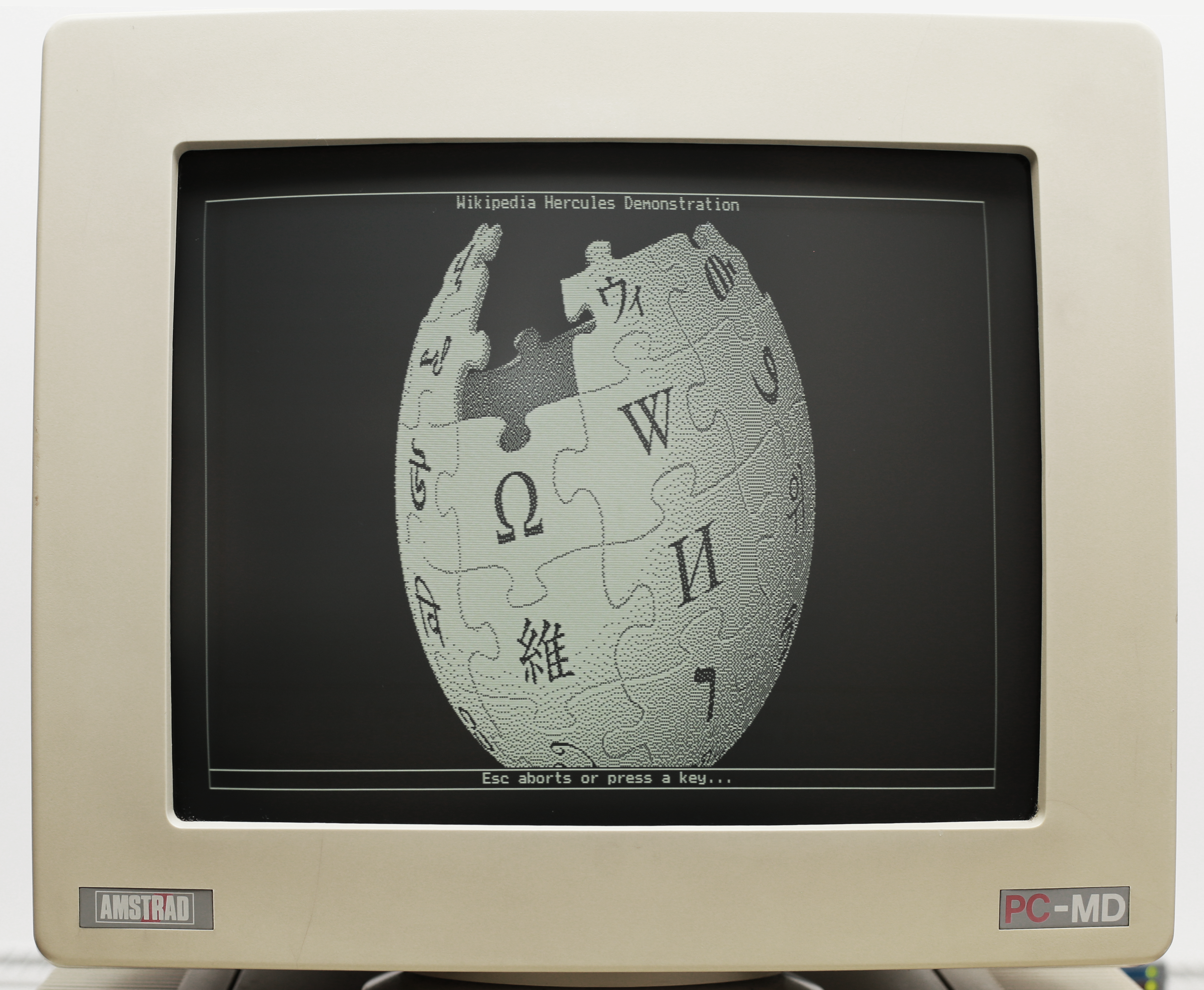 The Wikipedia logo displayed by a program I User:Gravislizard wrote that renders the image in 1-bit color, photographed by User:Ben_A_L_Jemmett on their Amstrad PC1512 which implements the Hercules graphics card standard.